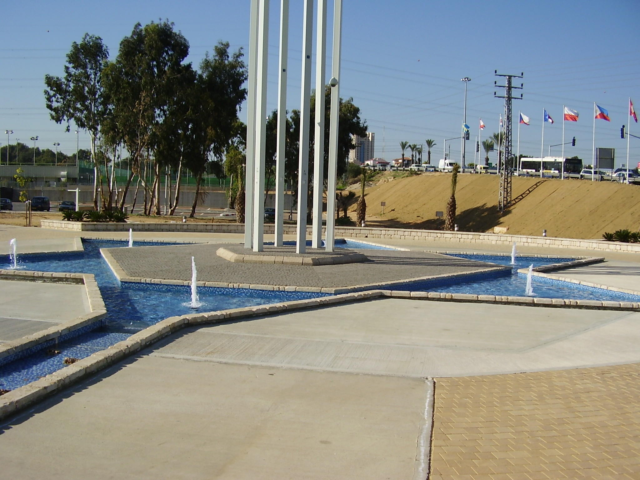 The "Star of David" fountain, Park of the Leaders of the Nation, Rishon LeZion, Israel